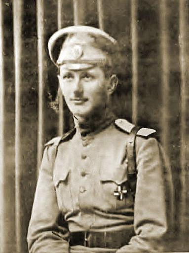 Volodymyr Oskilko (1892 – 19 June 1926) general in the army of Ukrainian People's Republic. Here as a lieutenant of Russian Imperial Army.